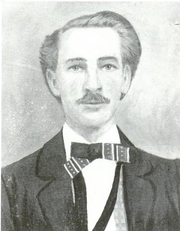 Lebanon Plantation, SW of Savannah Savannah